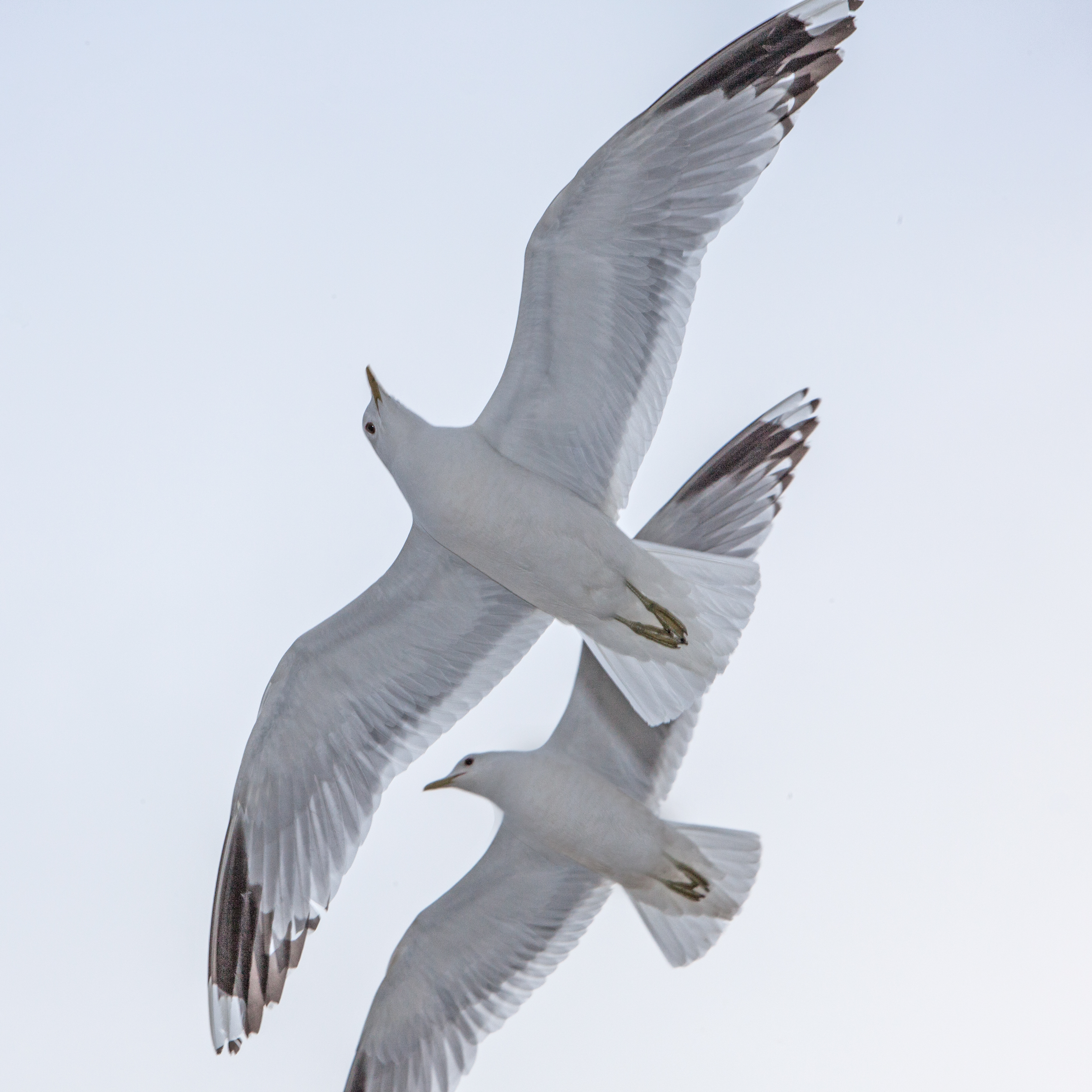 Seagulls in Vaxholm Sweden June 2013